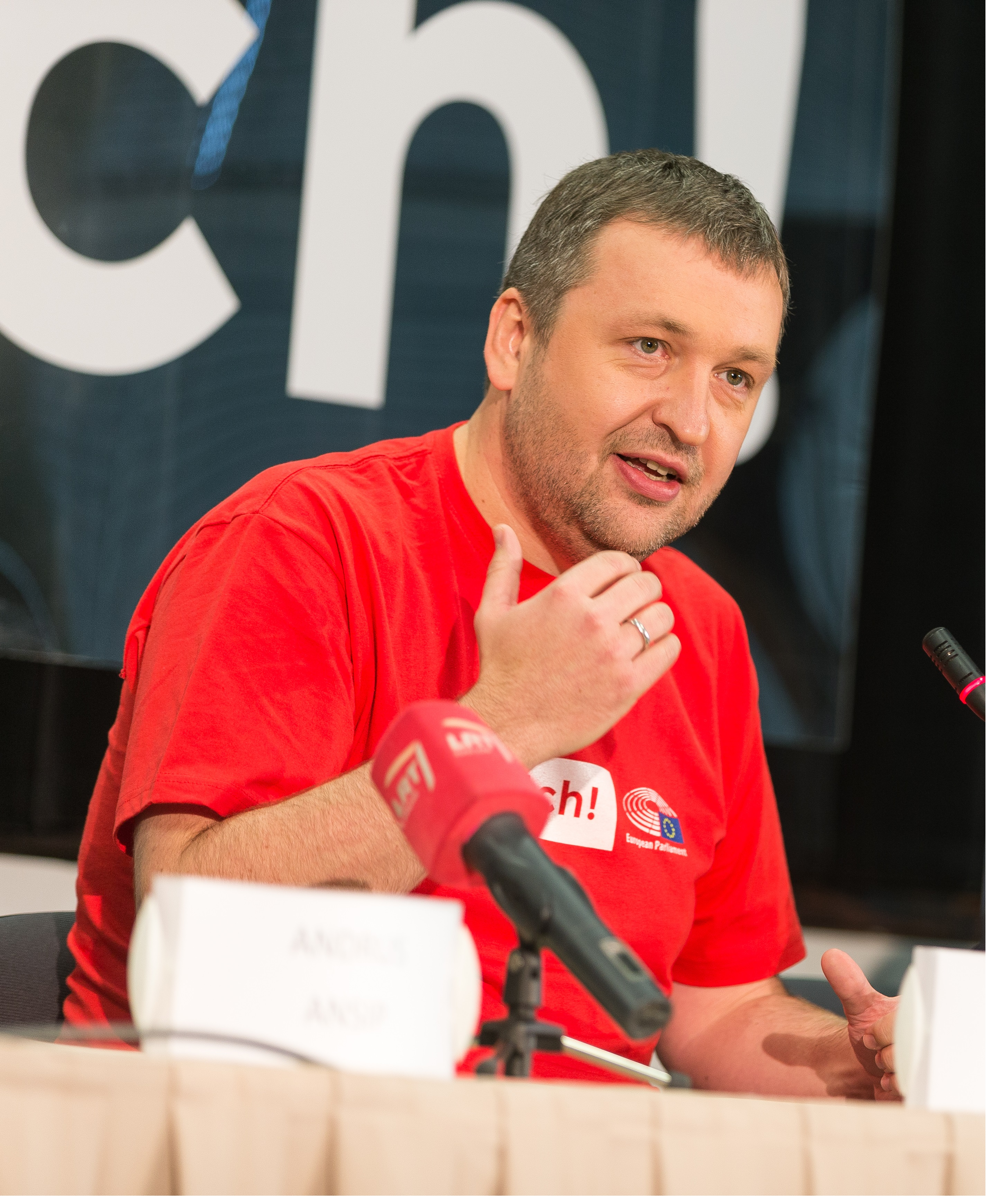 Antanas Guoga at #SWITCH! 2015